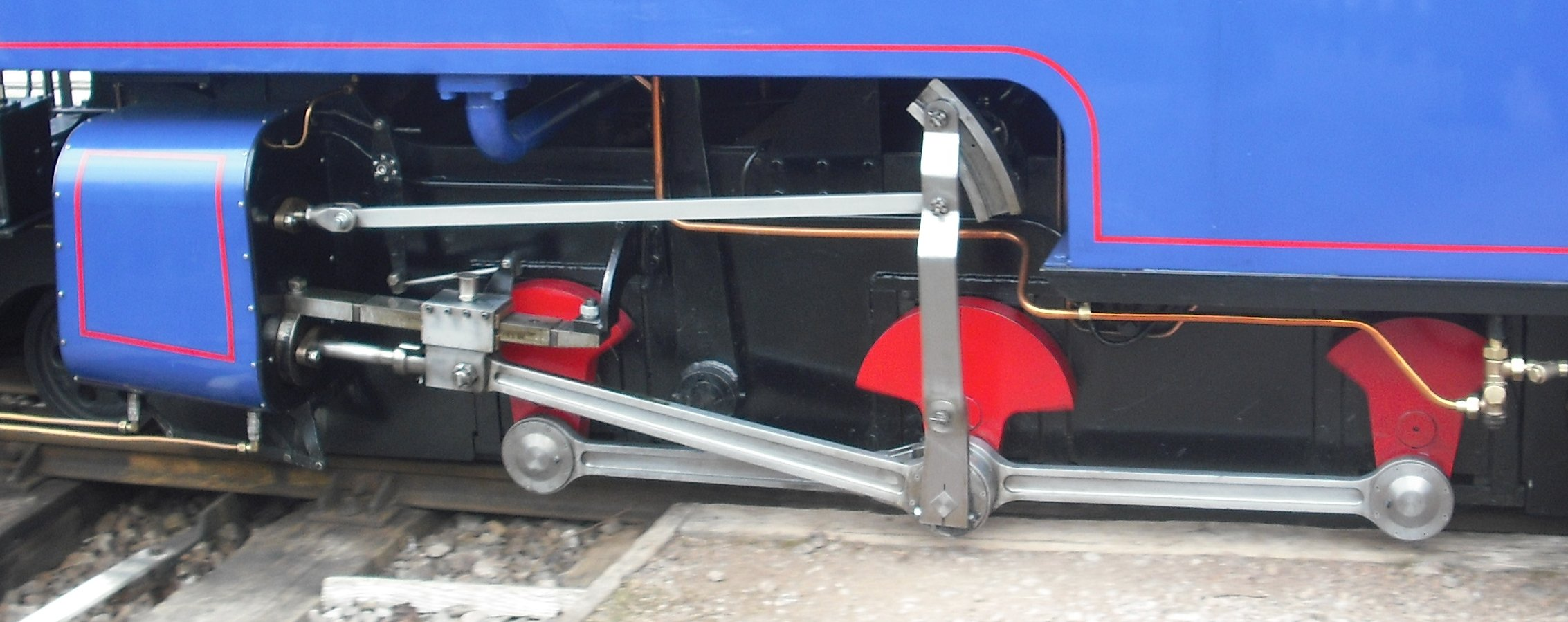 Hackworth valvegear on the steam locomotive Lydia, at the Perrygrove Railway.